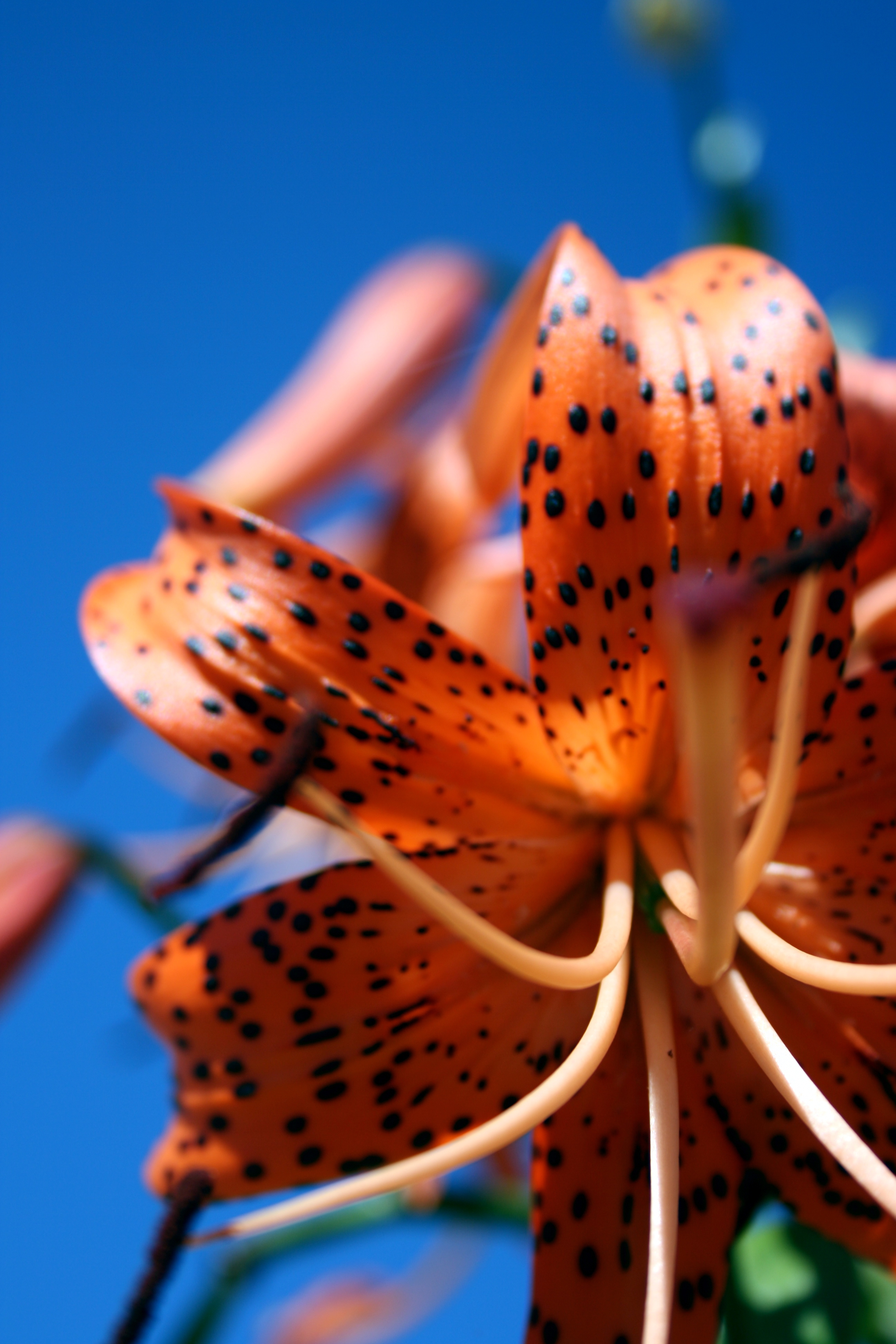 A Tiger-lily (Lilium longiflorum) in front of a McDonald's in Berrien County, MI.